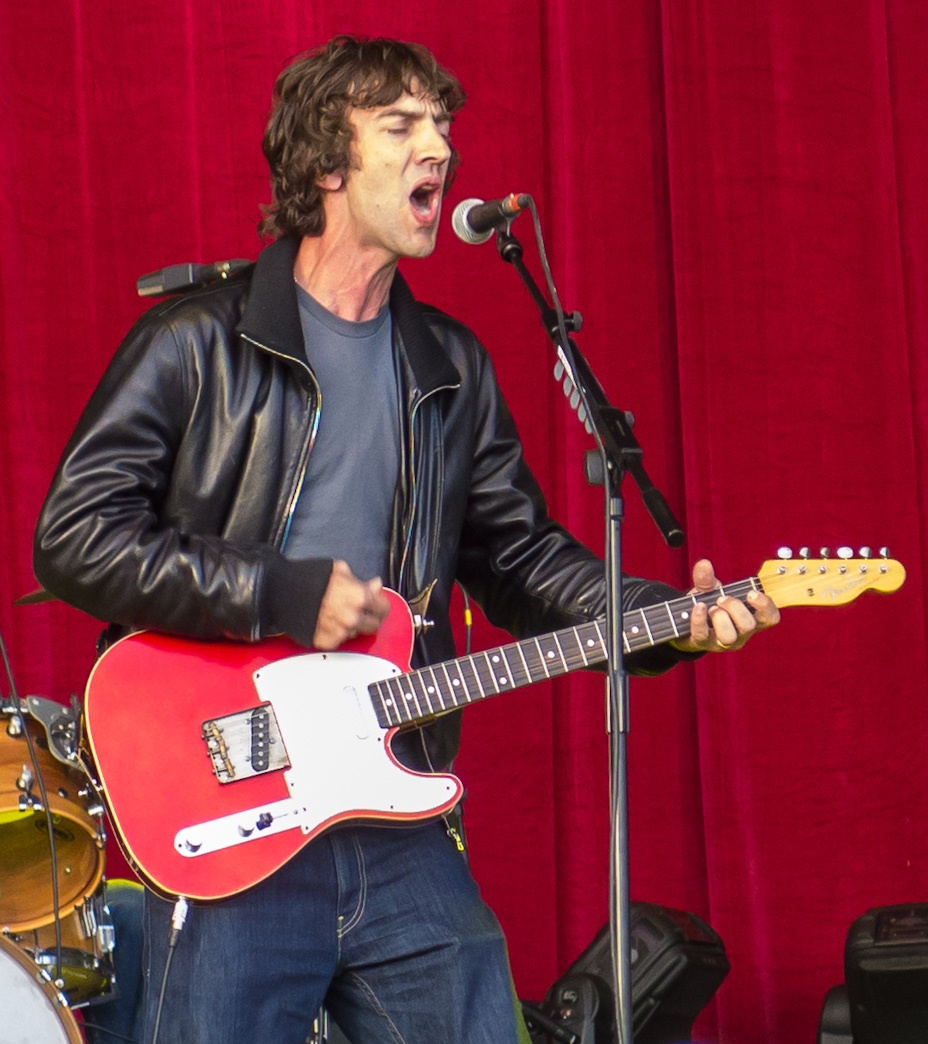 Richard Ashcroft in concert